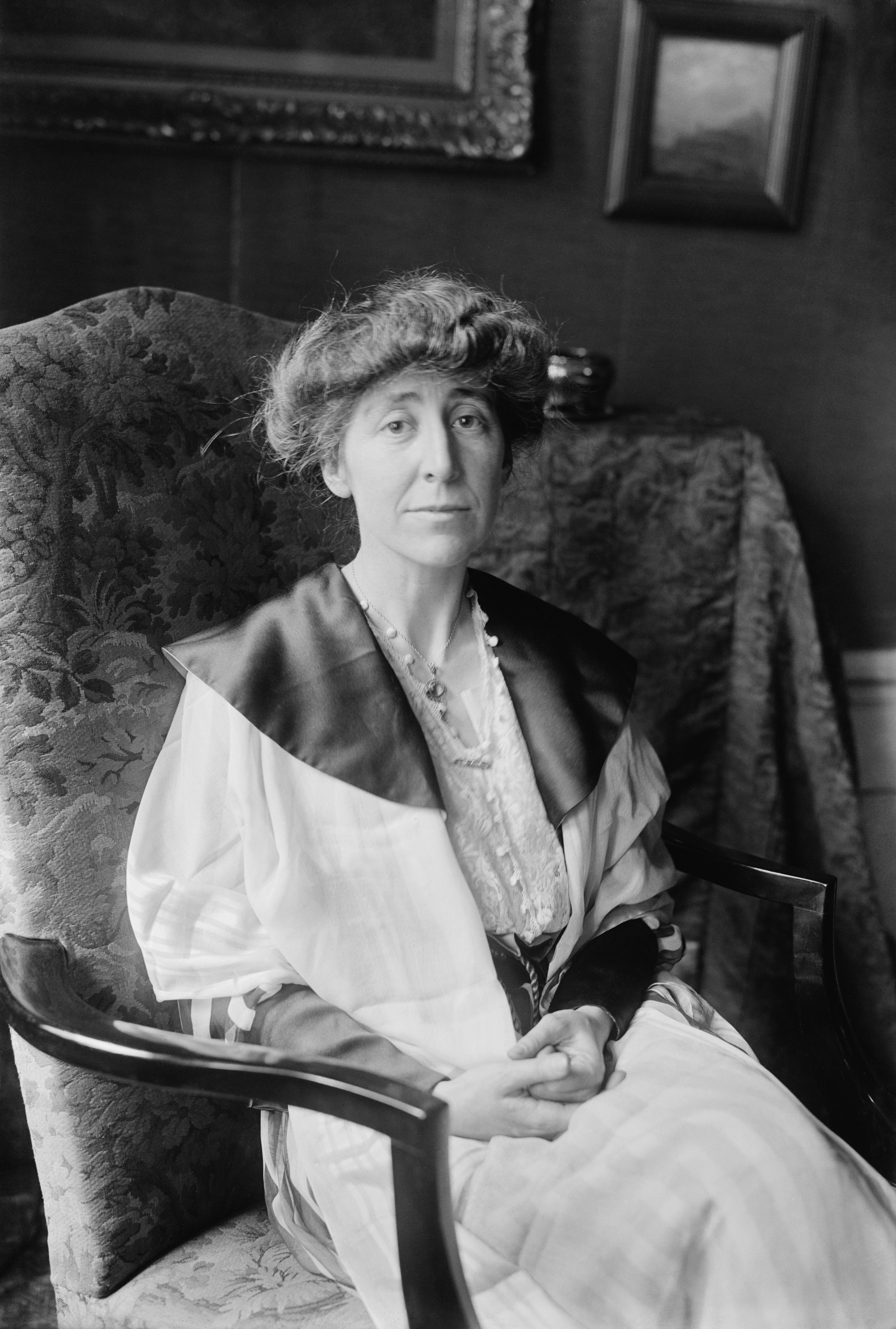 Jeannette Pickering Rankin (1880-1973), a member of the United States House of Representatives who was elected in 1916 as the first woman to serve in the U.S. Congress. Glass negative 5 x 7 in. or smaller.